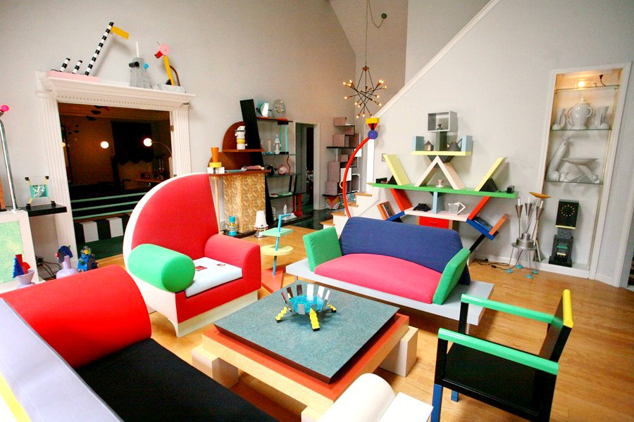 Room view of part of a Memphis-Milano design collection.